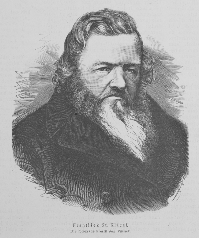 Portrait of František Matouš Klácel, Czech writer and journalist who spent the last decade of his life in Chicago, USA. Note that the caption to the original image shows "St." (probably Stanislav) as his middle name; however, the obituary on page 250 of the same issue makes it clear that it is the same person.